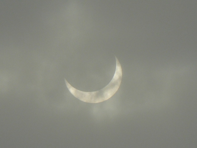 Partial solar eclipse as seen from Petrov nad Desnou, Czech repulic on 4th January 2011, 9:41 UTC